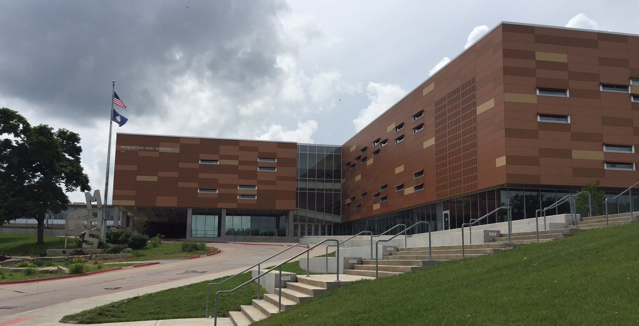 Photo of Manhattan High School in Manhattan, Kansas.